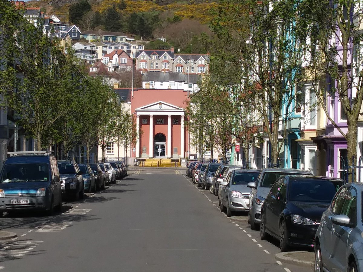 Portland St, Aberystwyth (mis Mai 2018)